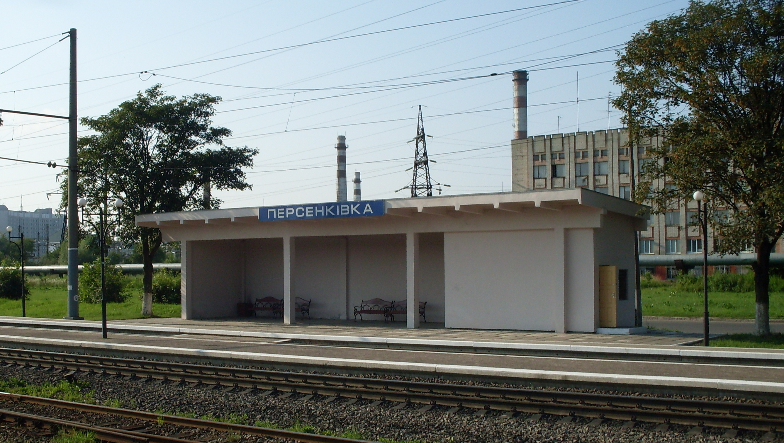 Railway station "Persenkivka" in Lviv, Ukraine.